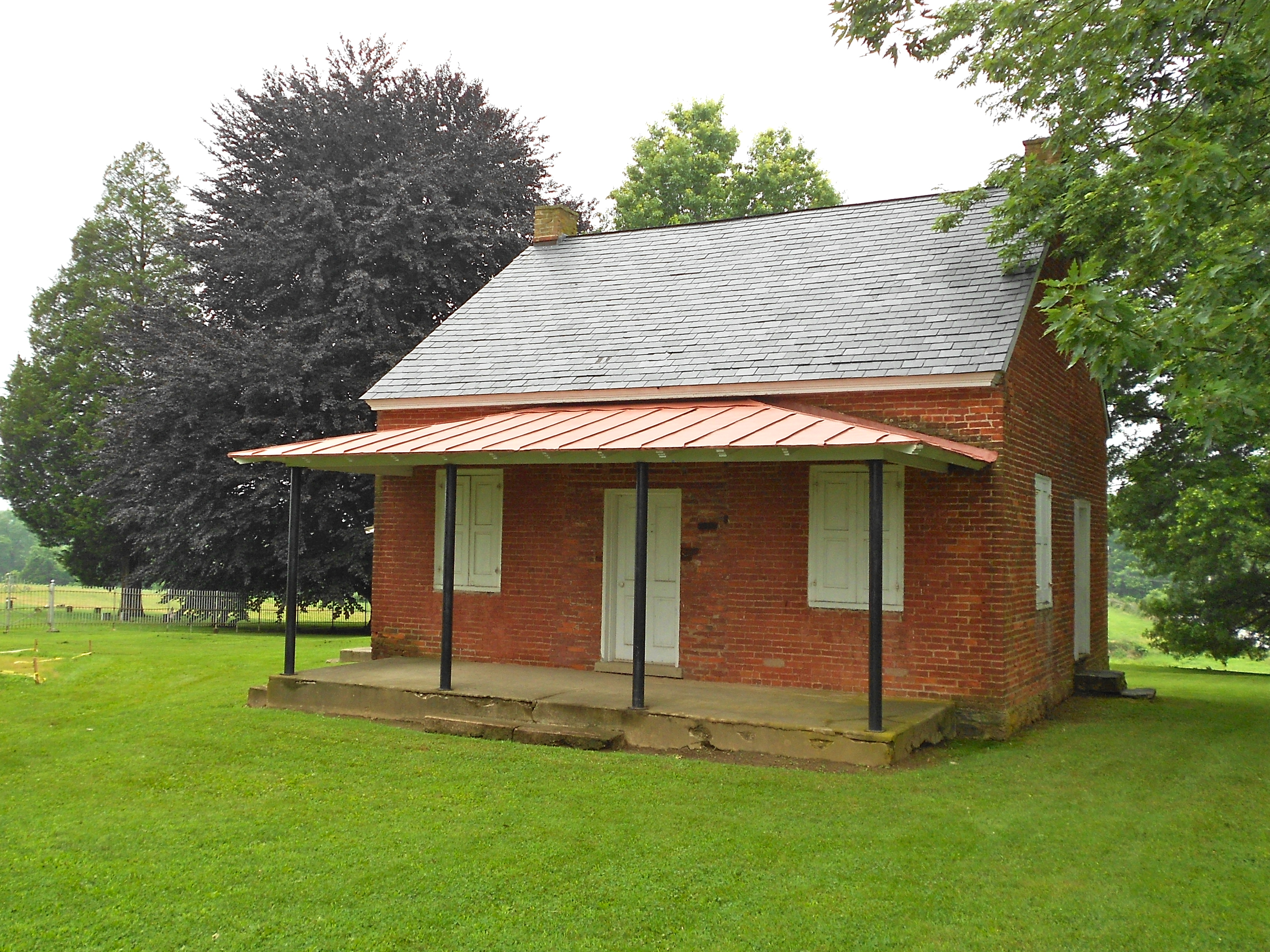 Homeville Friends Meeting in Upper Oxford Township in Chester County, Pennsylvania. Homeville is just a crossroads now, almost in Lancaster County. The Friends Meeting only meets twice a year. The land and building are owned by the Cemetery association